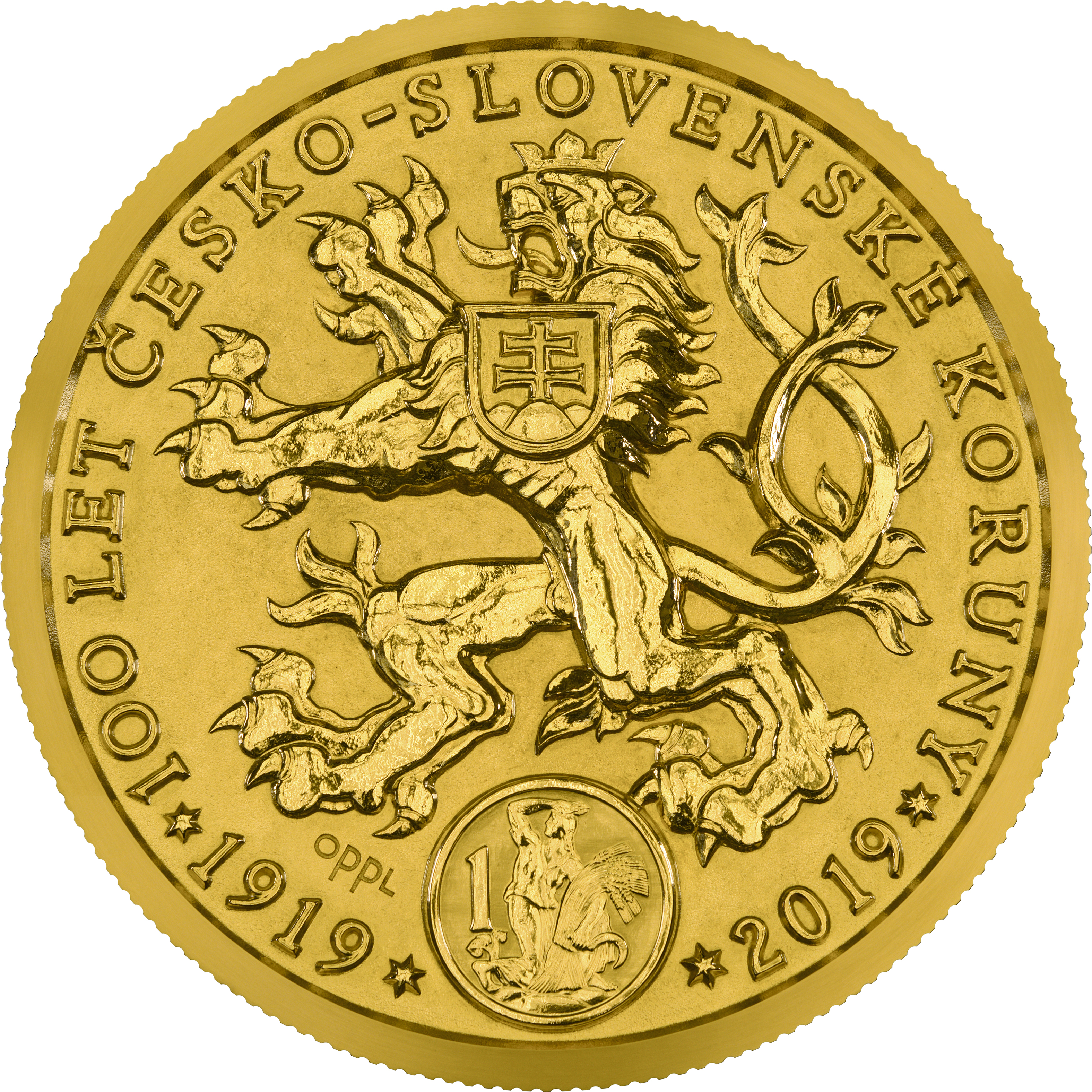 The Czech heavyweight coin is (since of January 2019) the largest gold coin in the European Union and the second largest gold coin in the world. The coin was produced to celebrate the 100th anniversary of the Czechoslovak crown and has a nominal value of CZK 100 million. Pictures on both sides of the coin were designed by academic sculptor and medalist Vladimír Oppl. On the front side of coin, the birth of the Czech crown is symbolized by the 1919 stamp and the present epoch is symbolised by the logo of the Czech National Bank. On the reverse side is a Czech lion and the motif of the most famous Czechoslovak single-crown coin from 1922.